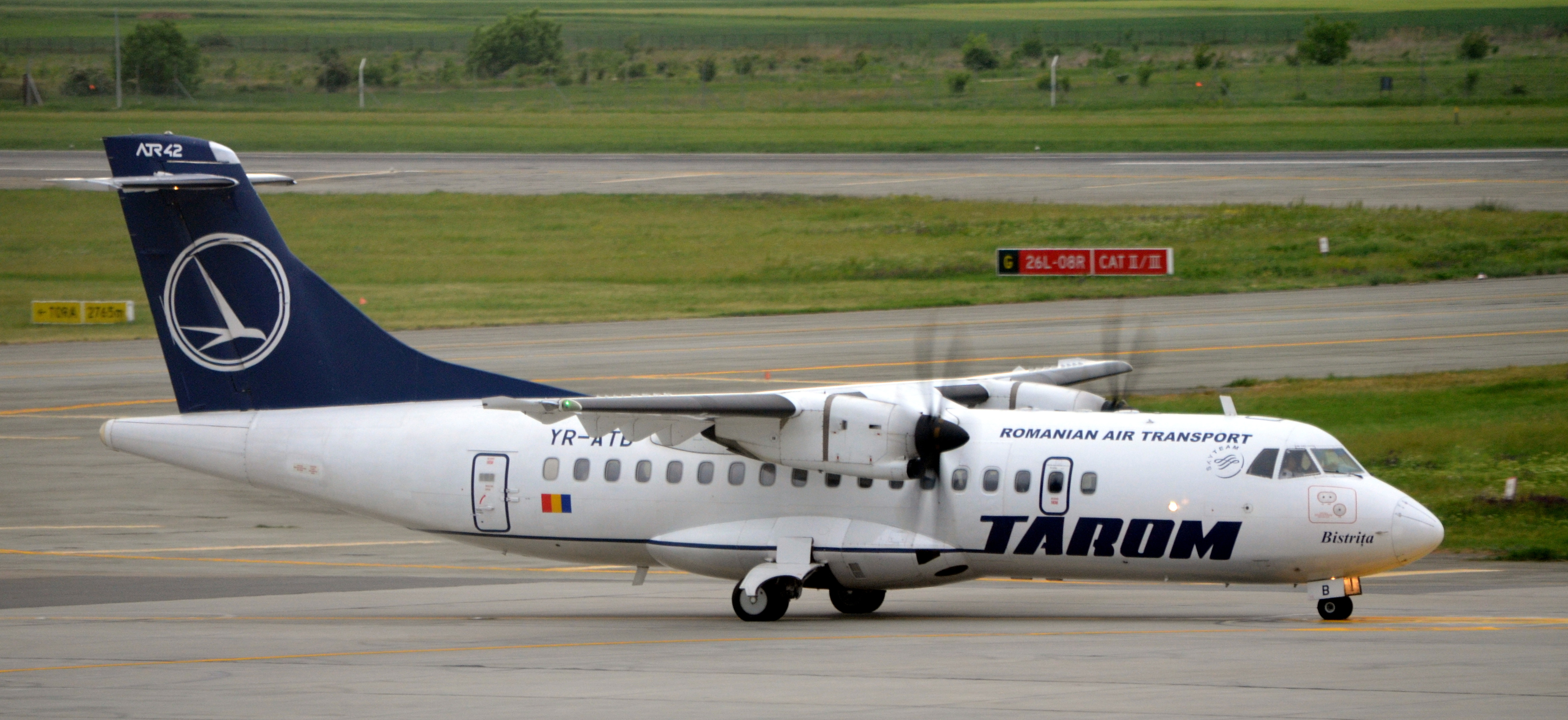 ATR-42-500 (Tarom YR-ATB), at Bucharest Otopeni Airport